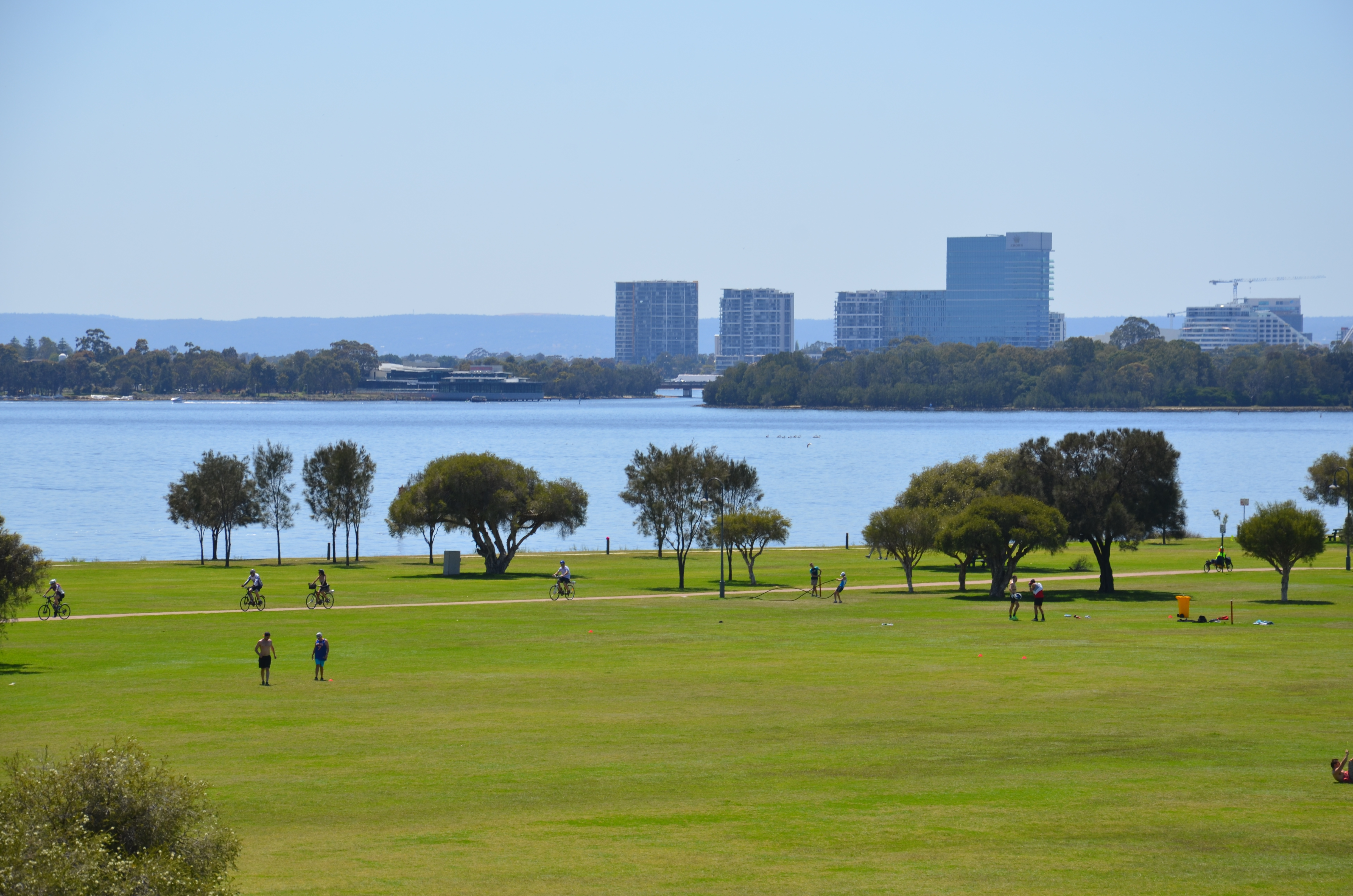 Looking from near north east corner of Perth Zoo, across perth water on a sunday morning spring 2016, crown properties in burswood and Darling Scarp in view